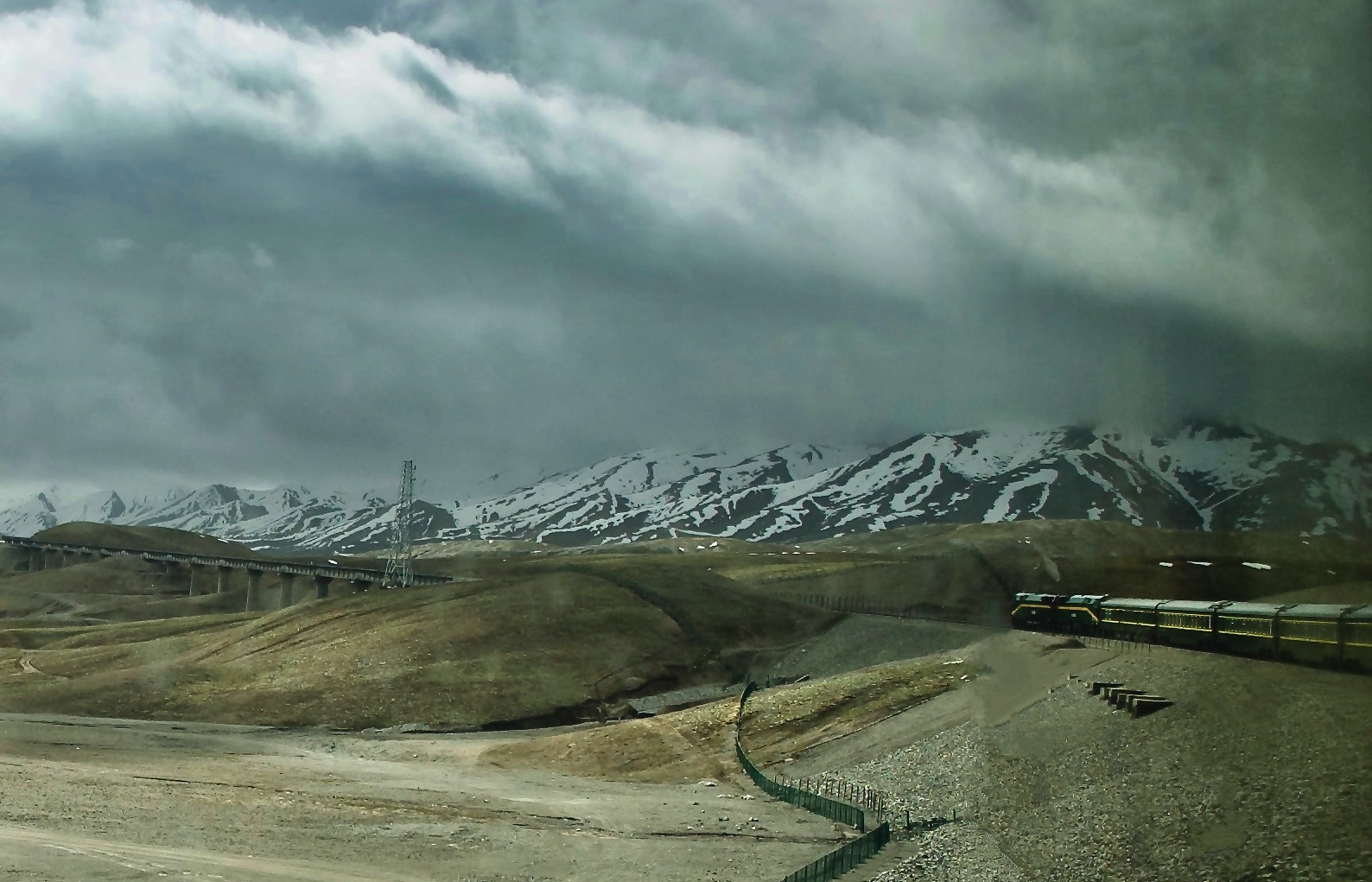 The Qinzang (Qinghai–Tibet) train early morning in Tibet, seen from inside a pressurized window